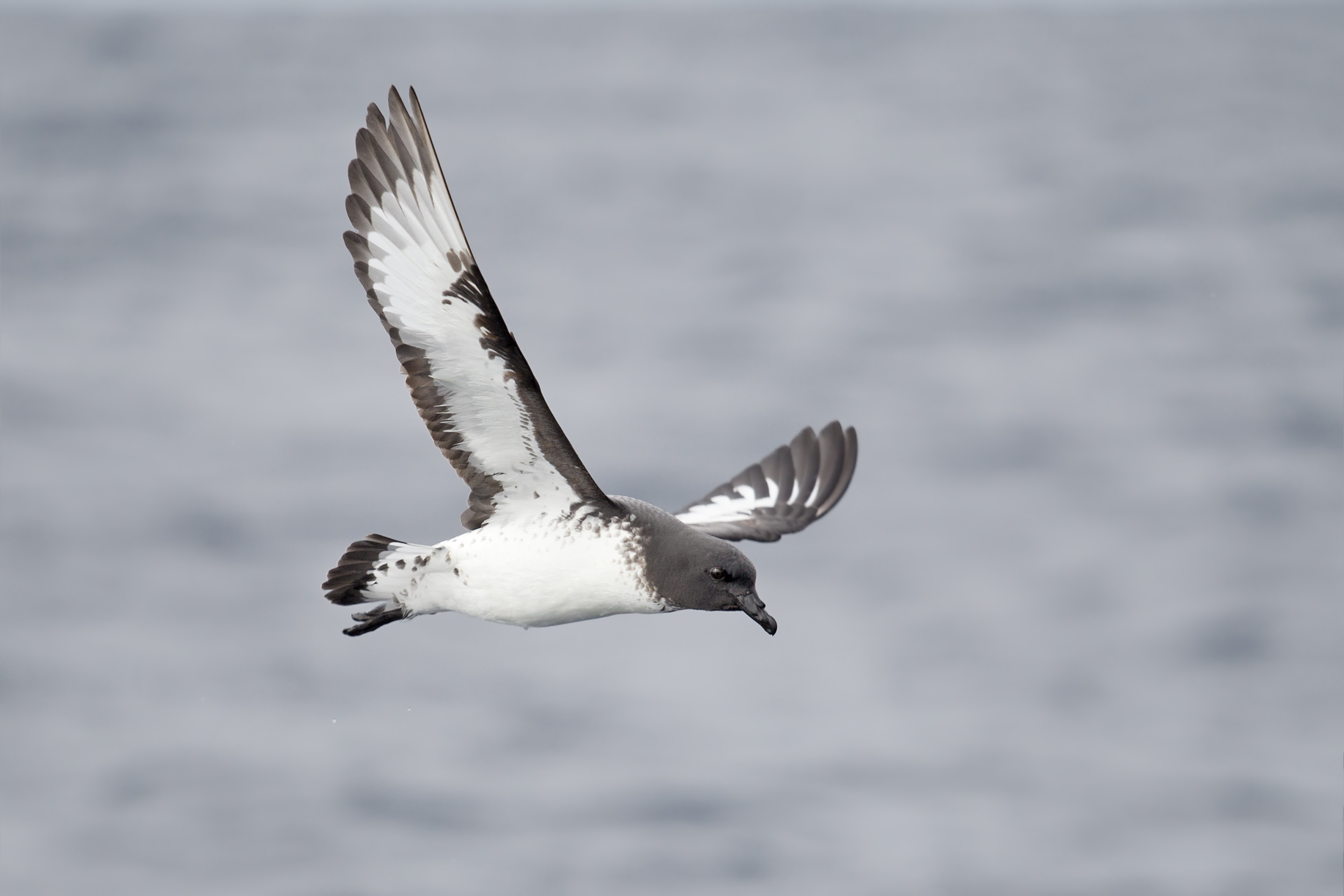 Cape Petrel (Daption capens eaustrale), East of the Tasman Peninsula, Tasmania, Australia